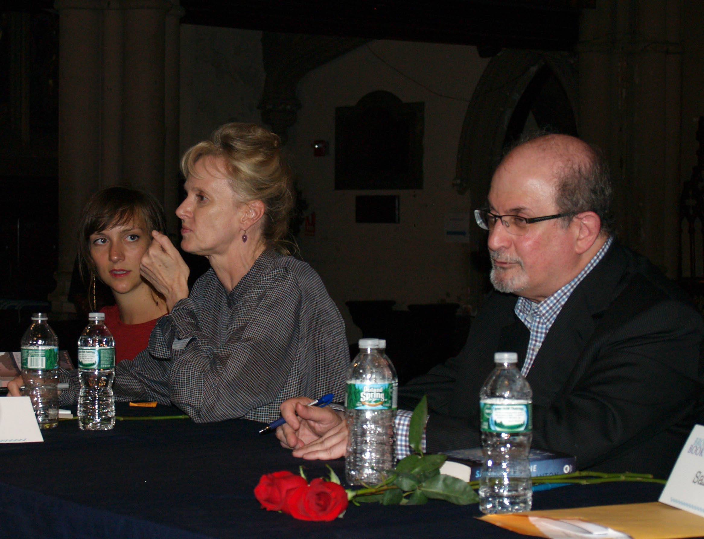 From left to right: Novelist/teacher Catherine Lacey, novelist/essayist Siri Hustvedt, and novelist/essayist Salman Rushdie, following "The Writer's Life" panel at the the 2014 Brooklyn Book Festival. This photo was created by Luigi Novi. It is not in the public domain, and use of this file outside of the licensing terms is a copyright violation.